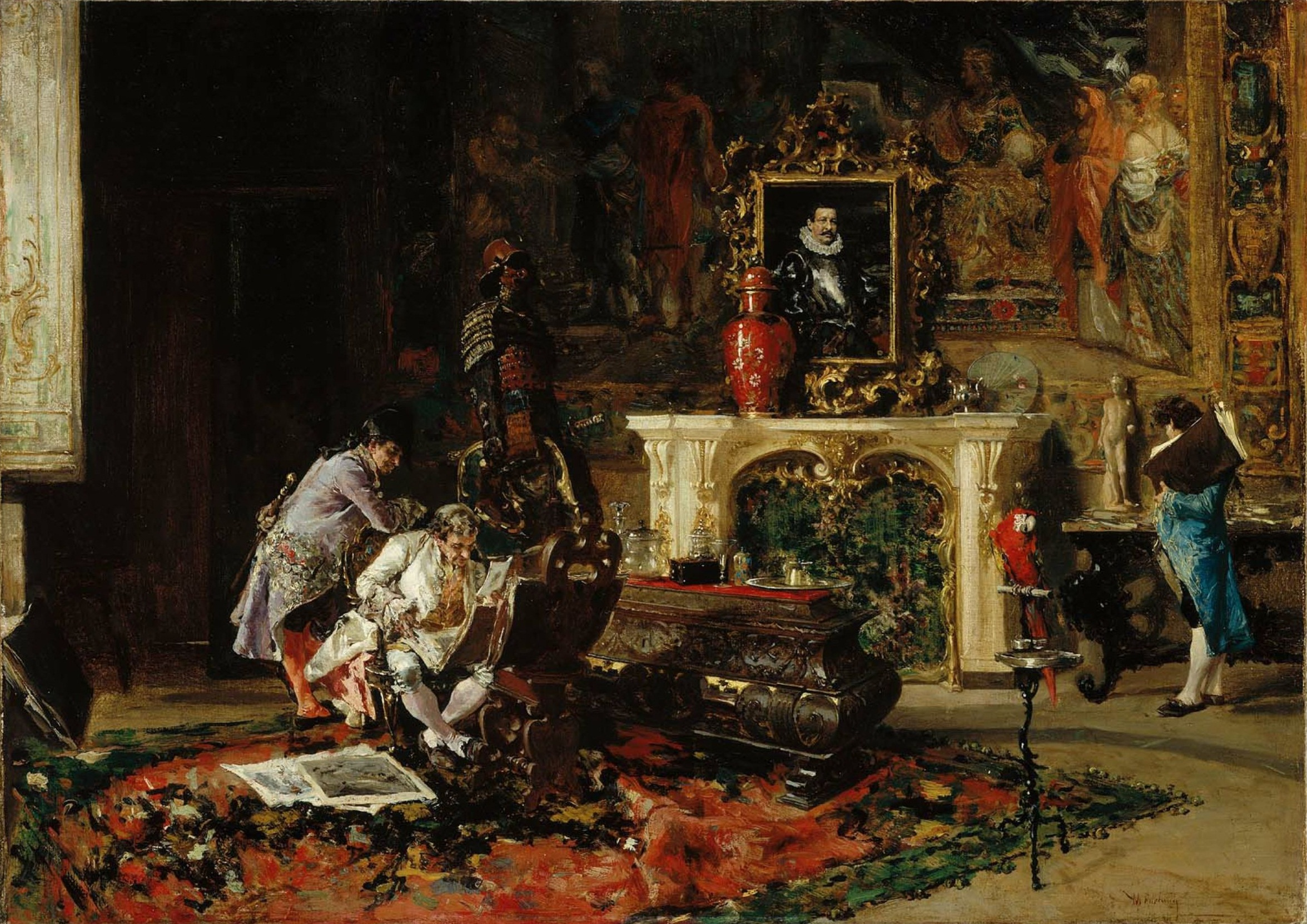 collectors of prints